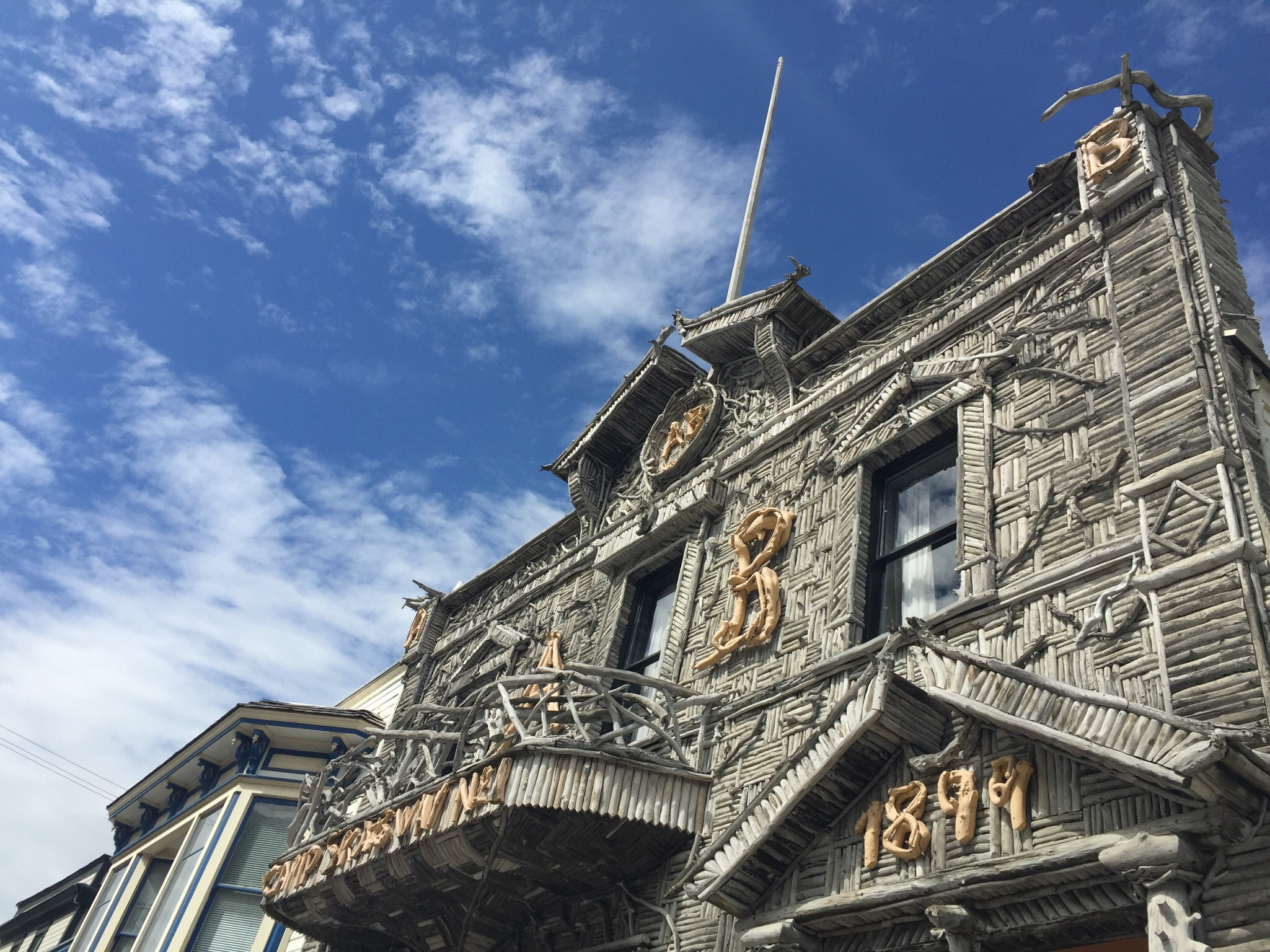 Shot of the Arctic Brotherhood Hall (Camp Skagway) from Skagway, Alaska. The building was built in 1899 and the front is covered with thousands of pieces of driftwood.